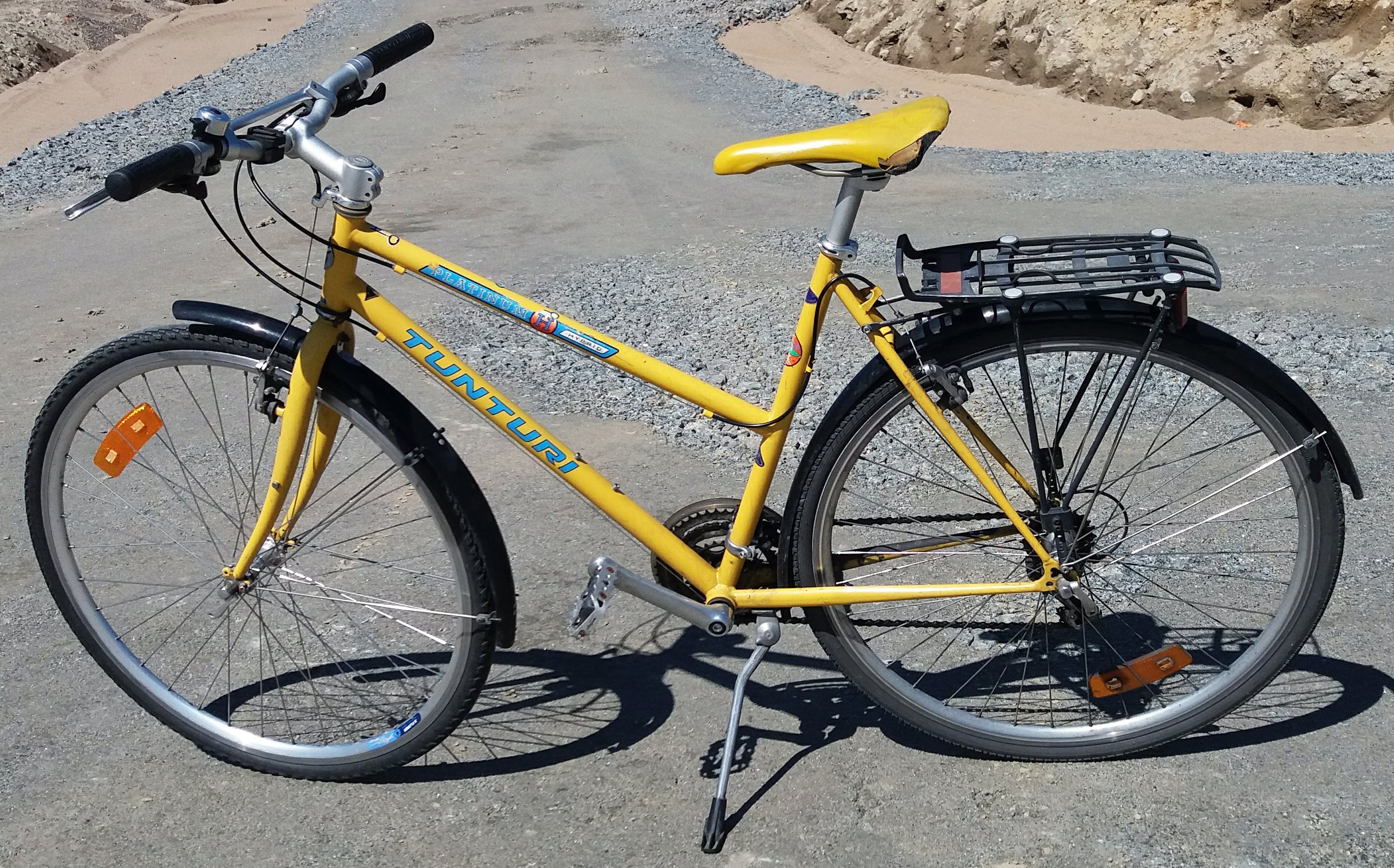 An yellow Tunturi bicycle in Jyväskylä, Finland.